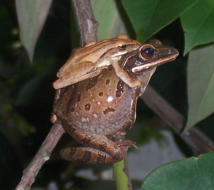 Polypedates leucomystax amplexus, from Darmaga, Bogor, West Java, Indonesia